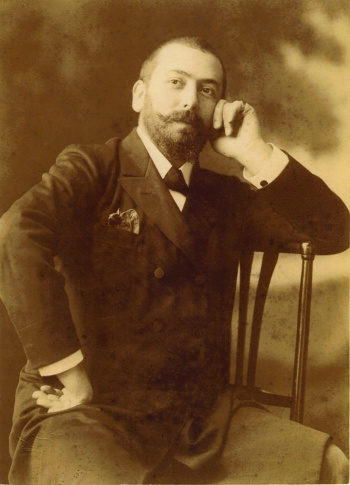 Photograph of filmmaker Marius Sestier